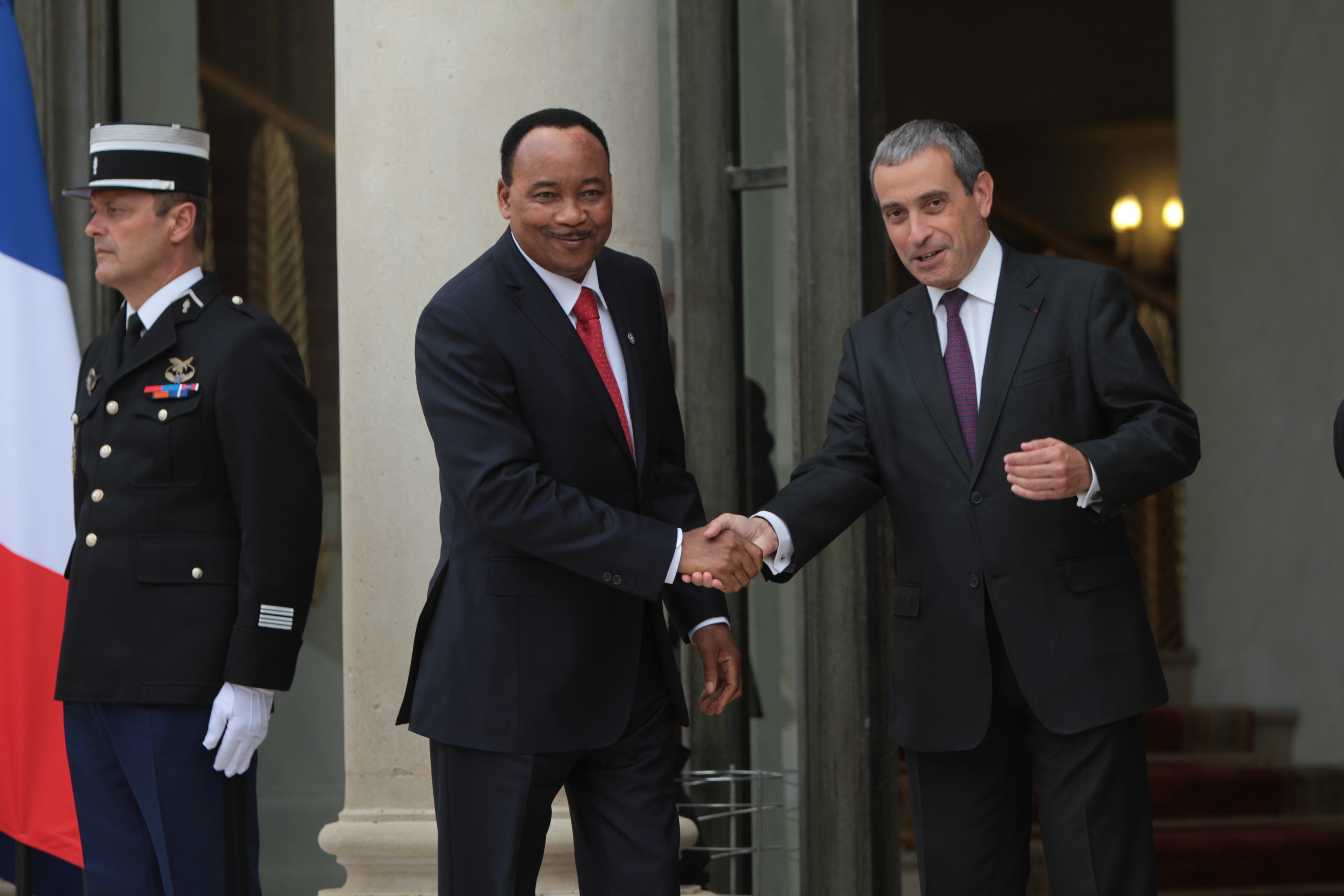 International Conference in Support of the New Libya, September 1, 2011.